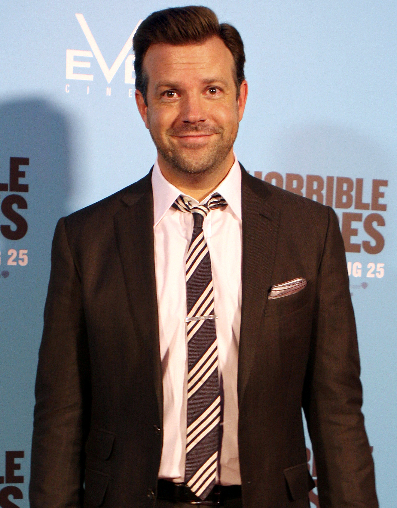 Jason Sudeikis at the Horrible Bosses Premiere 2011.